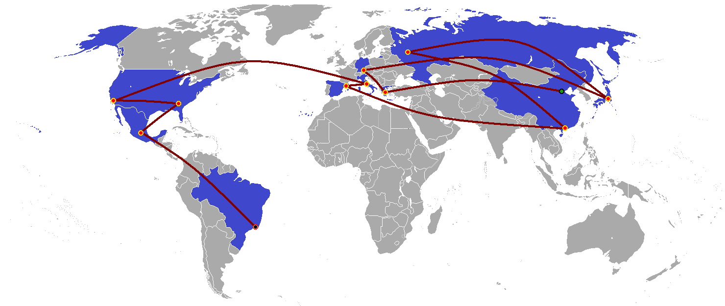 The route map of The Amazing Race China 2016.